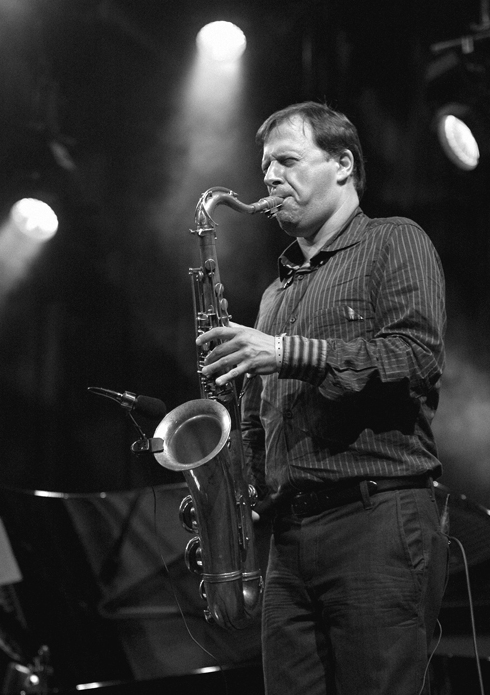 Jazz saxophonist Chris Potter at North Sea Jazz festival, Rotterdam, 2008